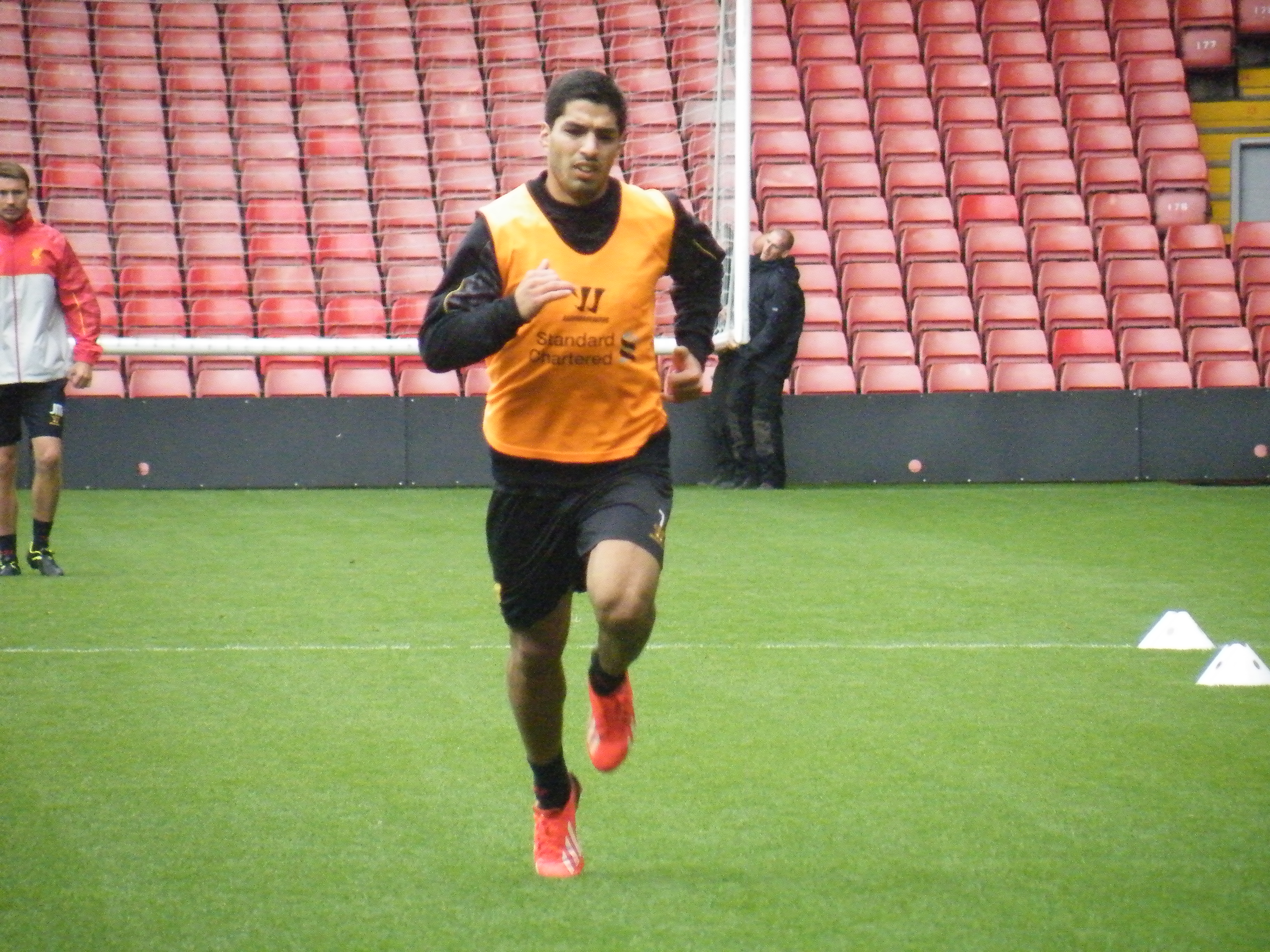 Luis Suarez during open training session at Anfield in August 2013.